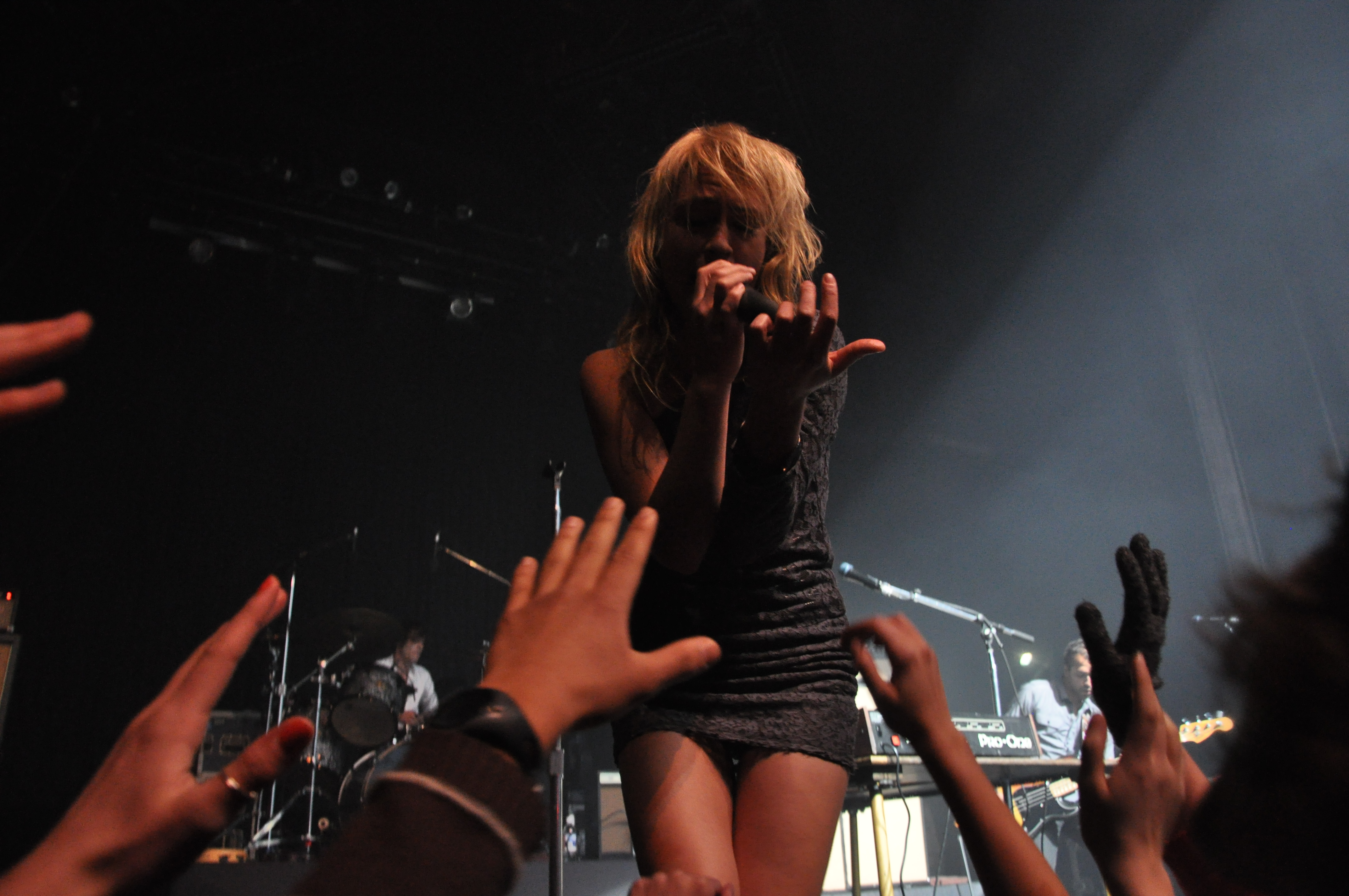 Metric in 2008